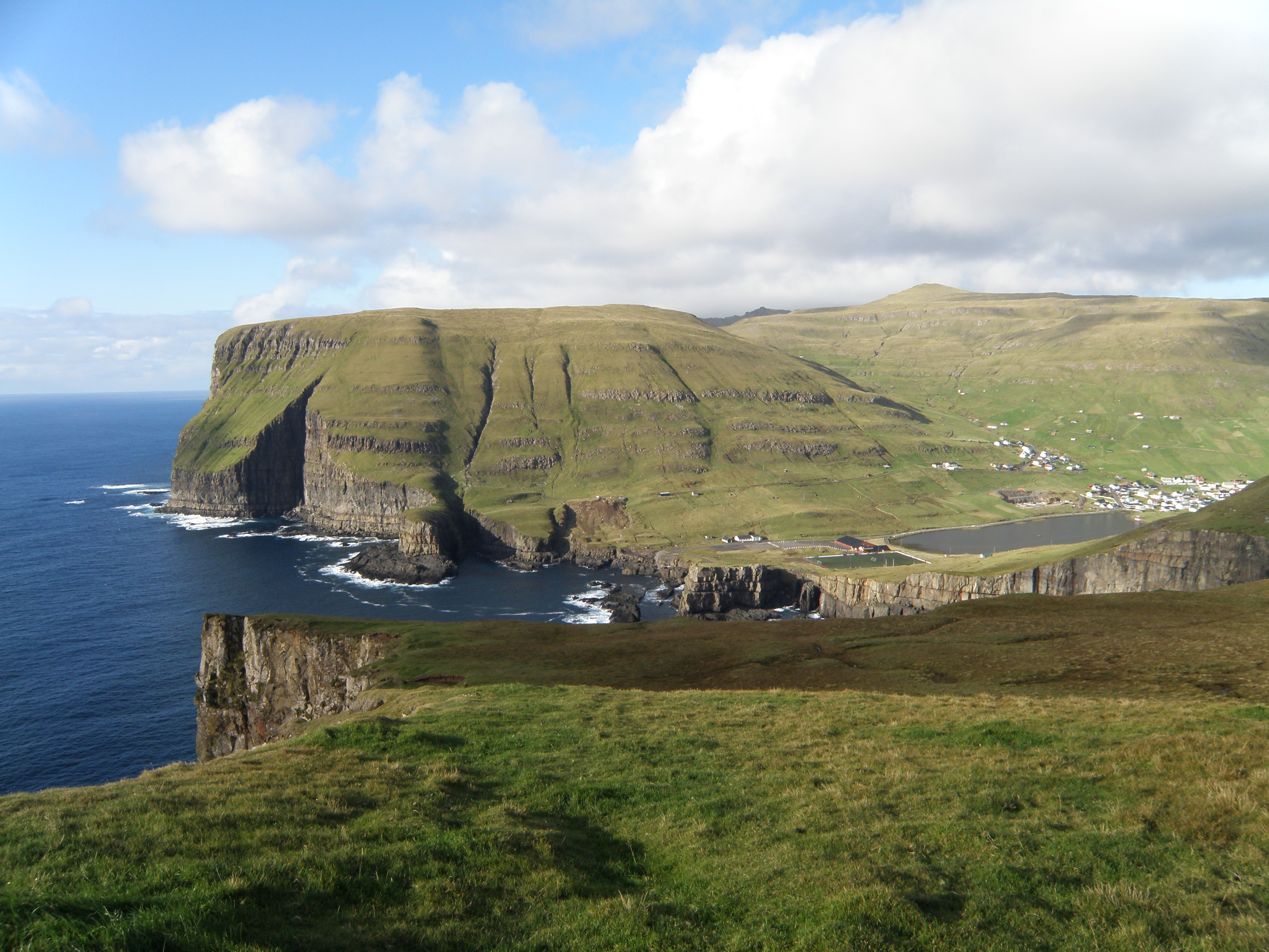 View from Eggjarnar near Vágur in Suduroy, Faroe Islands. View towards north to Vágseiði and the FC Suðuroy football stadium Vesturi á Eiðinum in Vágur. The western part of the village Vágur is also visible on the photo.